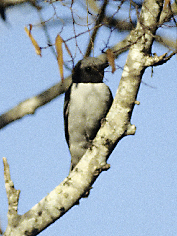 "I apologize for the photograph and wouldn't post it, except that no one else has posted any pictures of this species."